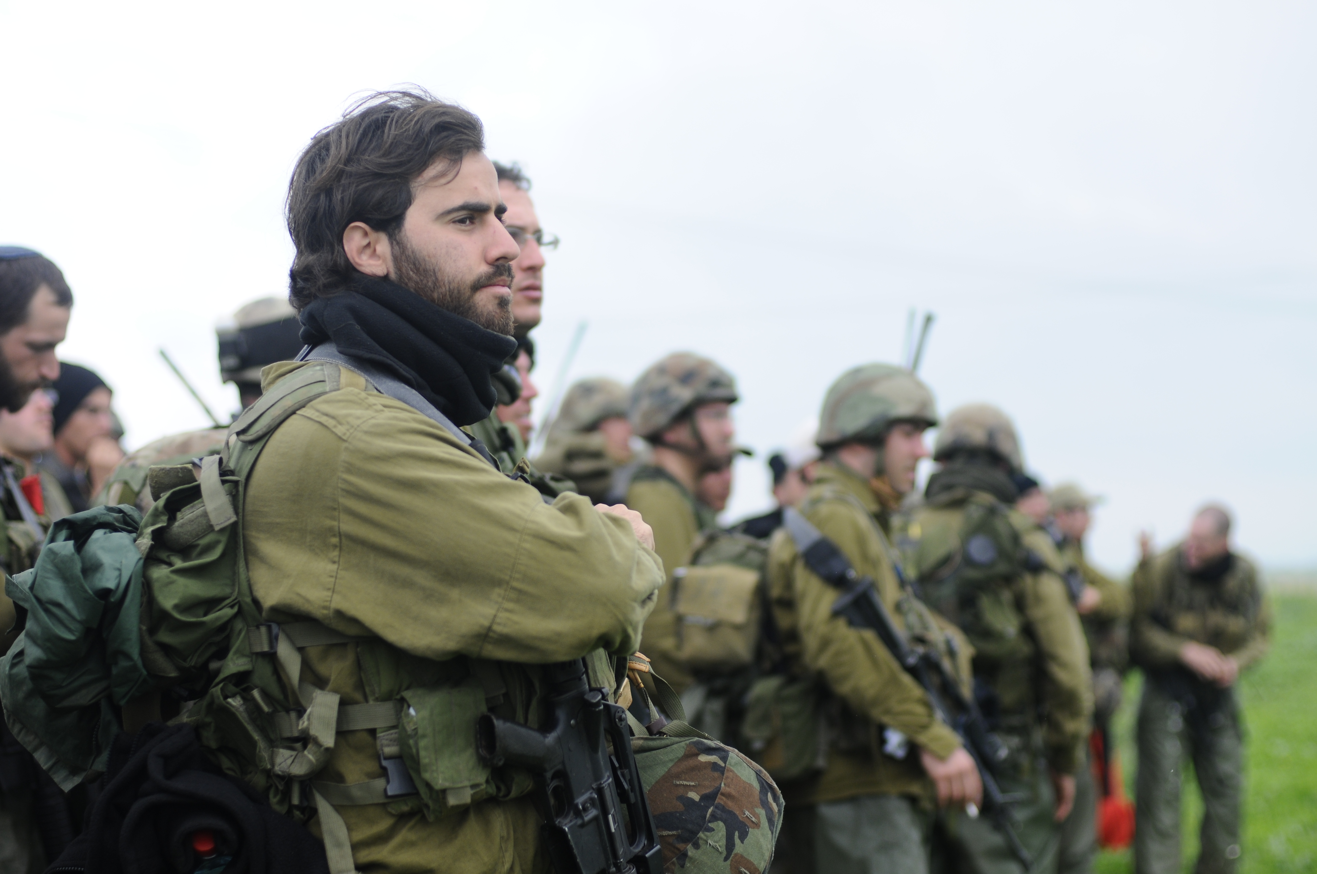 May 23rd, 2011 Yesterday marked the beginning of IDF Appreciation Week for Reserve Soldiers. Reservists can continue to serve in the IDF following their mandatory service up to the age of 45 (after which they may volunteer to continue further). The IDF salutes its reservists, men and women who have sacrificed over the years for the security of the State of Israel. During this week there will be numerous ceremonies and events dedicated to the IDF reserve forces, including a day for reservists at the Israeli Knesset. Pictured here: A reservist trains during a battalion wide exercise in the Golan Heights during March of this year. As part of the conclusions drawn by the IDF following the Second Lebanon War, reservist ground forces have stepped up their training, and are better prepared than ever in case of emergency.